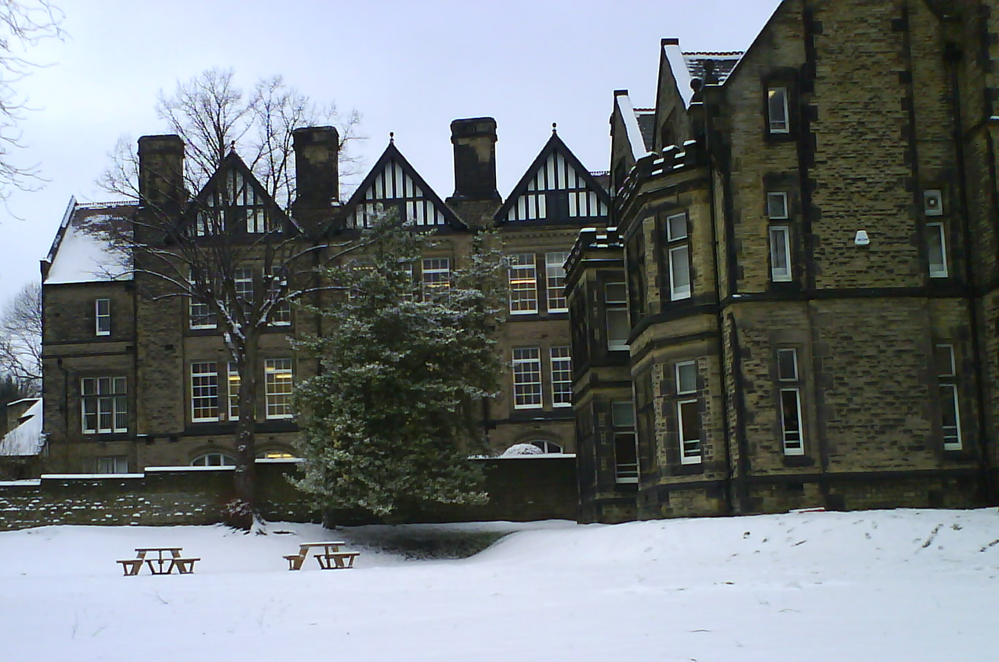 Moor Lodge in snow, one of the buildings on the campus of Sheffield High School, South Yorkshire